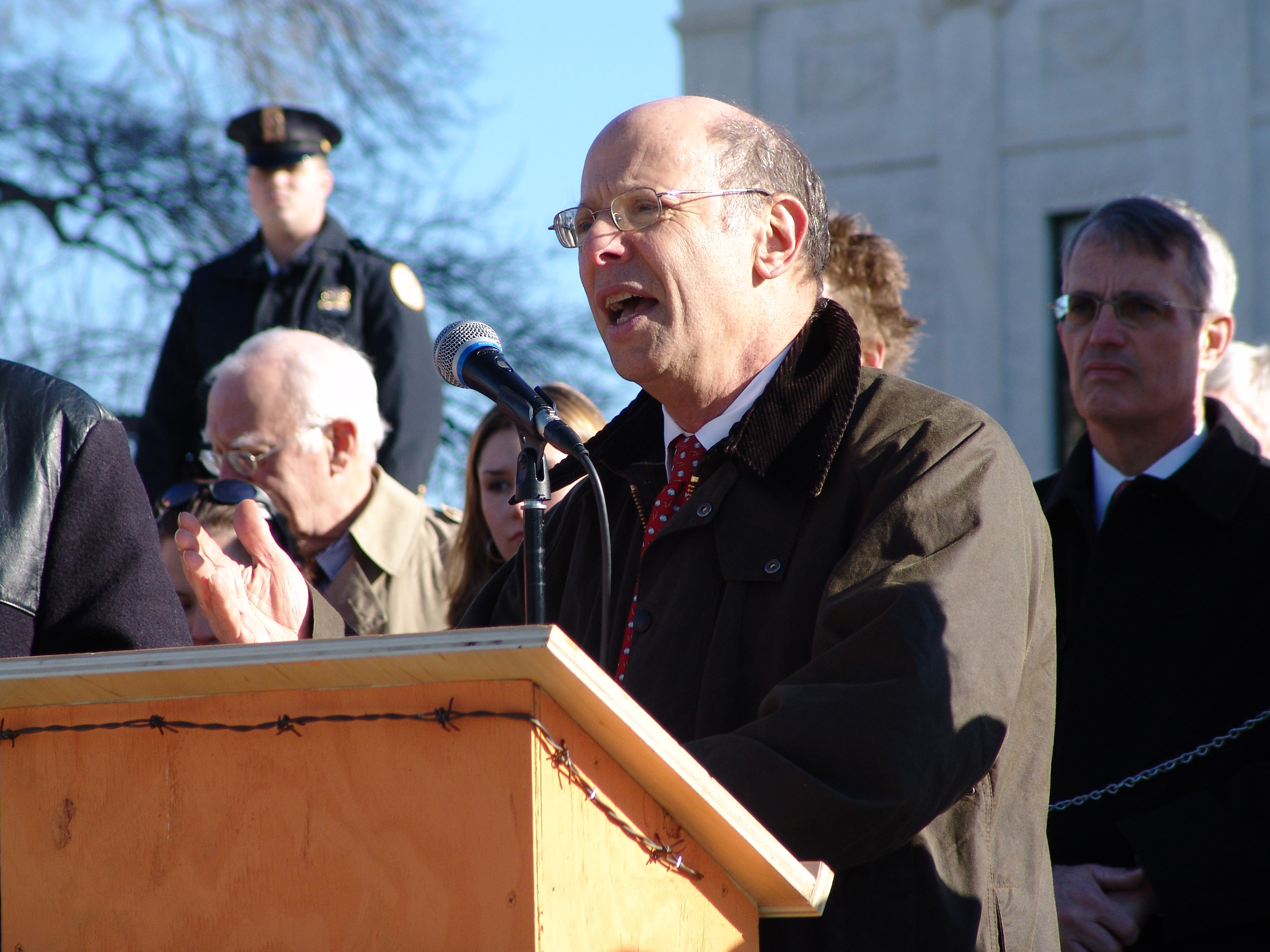 Michael Ratner, president of the Center for Constitutional Rights, in front of the US Supreme Court in Washington DC.